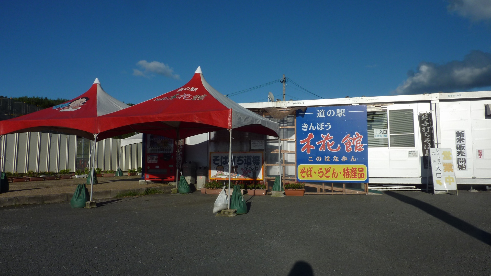 The Michinoeki Kinpo-Konohanakan is located in Kinpo, Minamisatsuma City, Kagoshima, Japan (National Route 270)